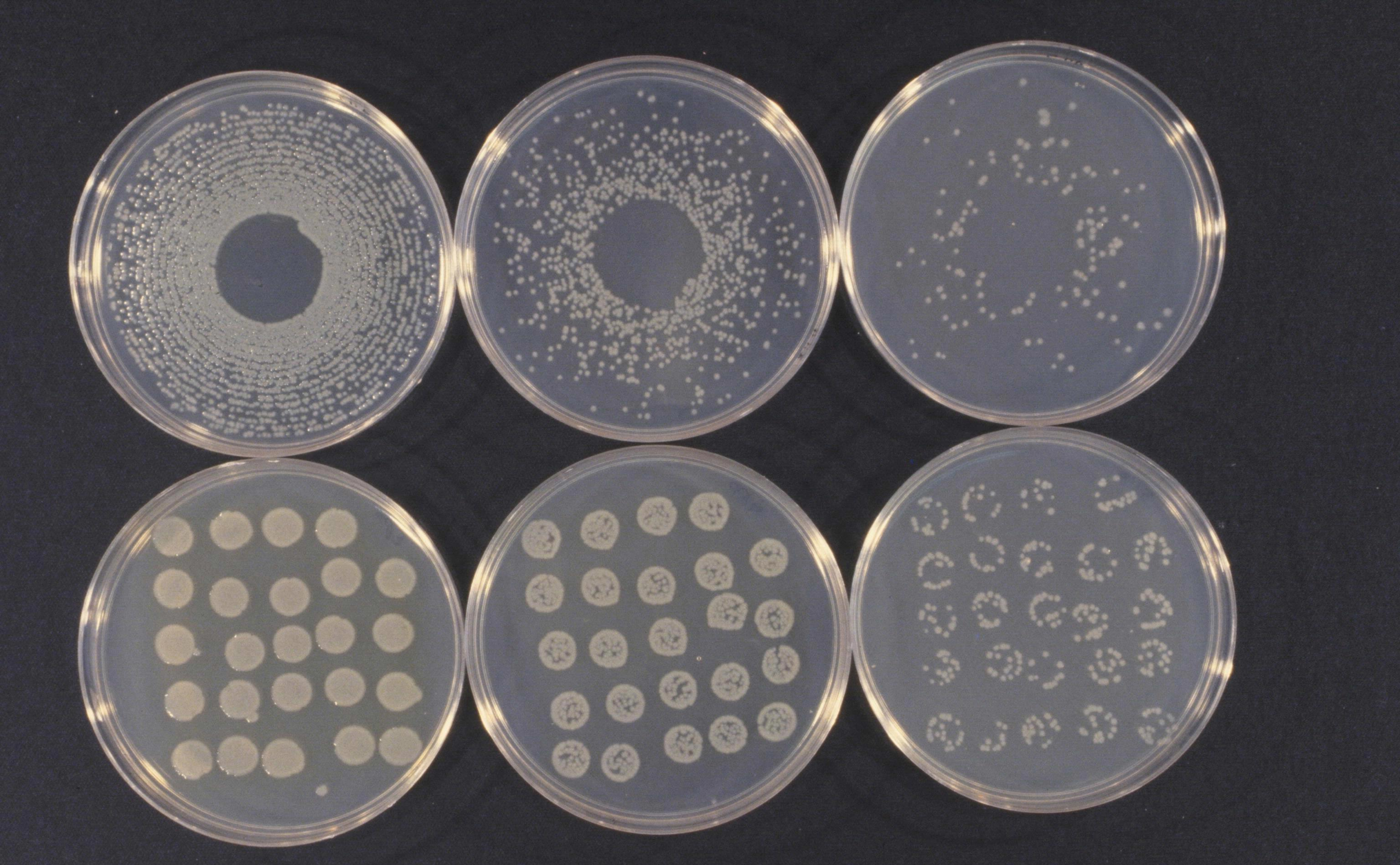 Cultures of Pseudomonas syringae van Hall taken from bean halo blight colonies